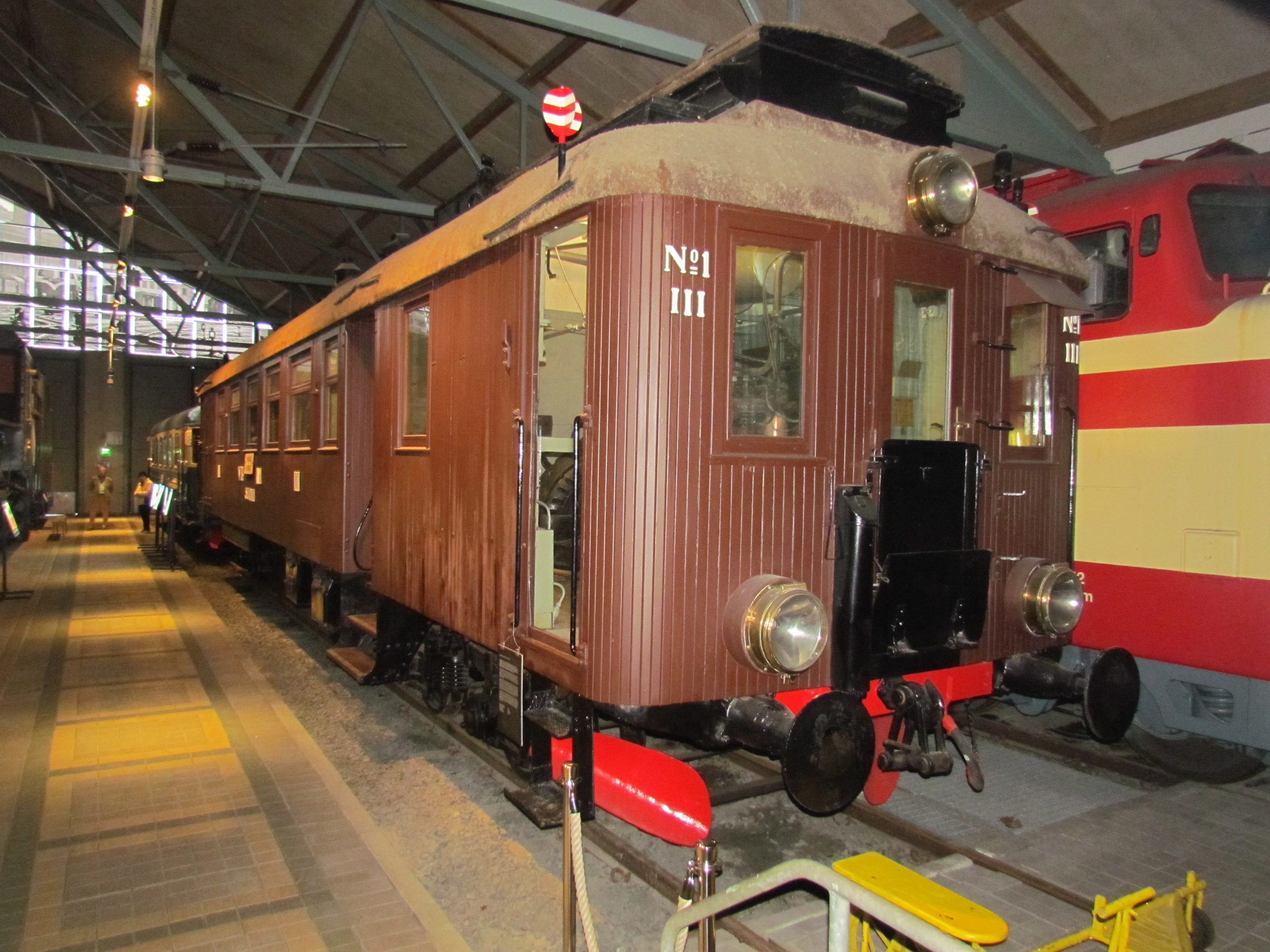 VR Class Ds1 railcar at the Hyvinkaa Railway Museum, Finland